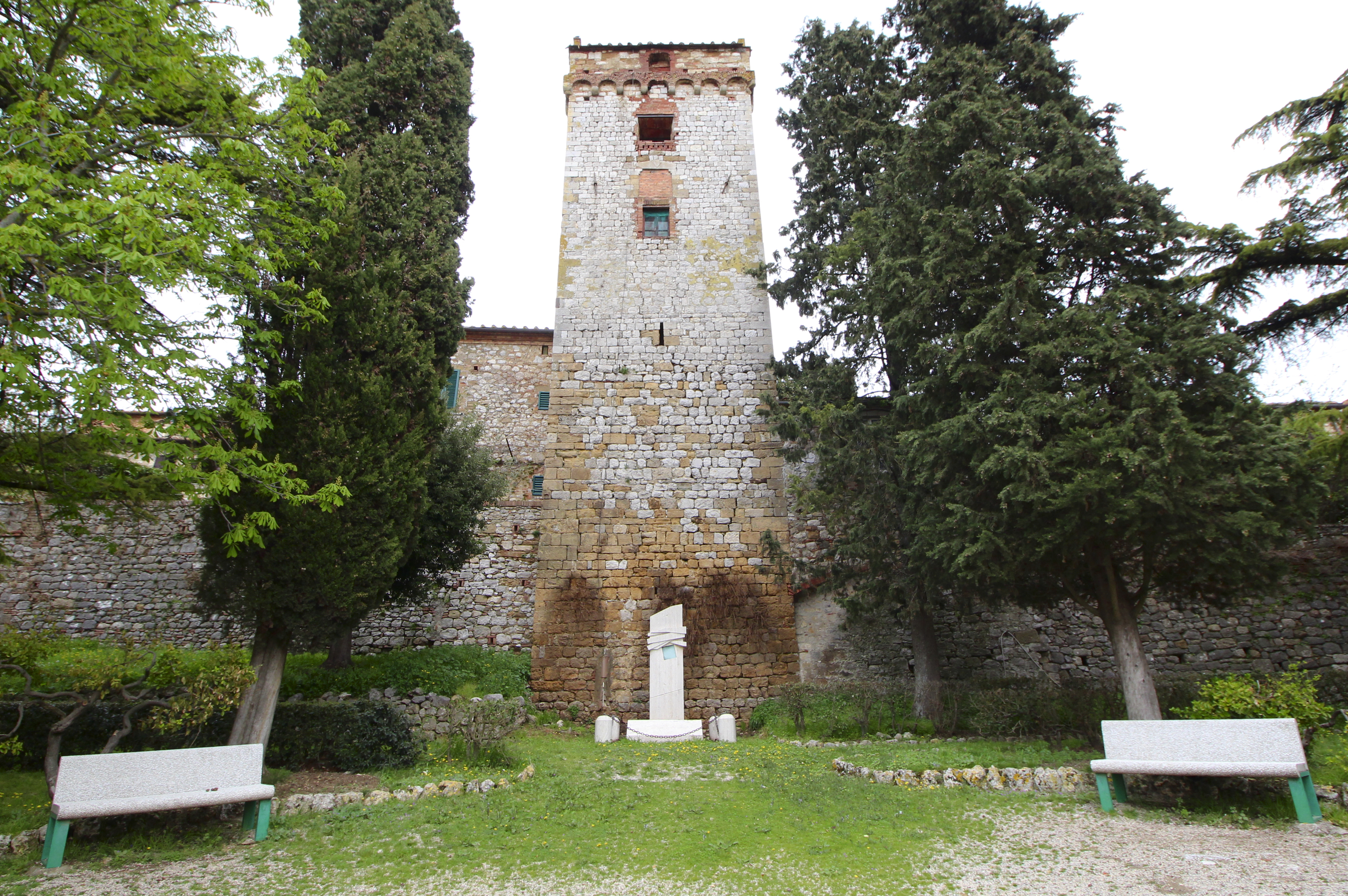 Tower Torre del Cassero, part of the walls of Montefollonico, hamlet of Torrita di Siena, Province of Siena, Valdichiana, Tuscany, Italy